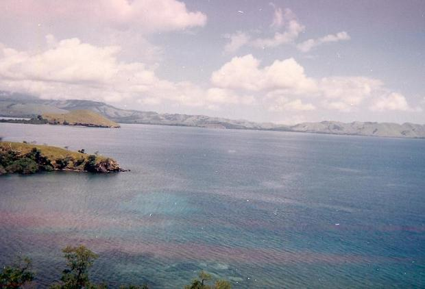 Magepanda beach, Flores Island, Indonesia